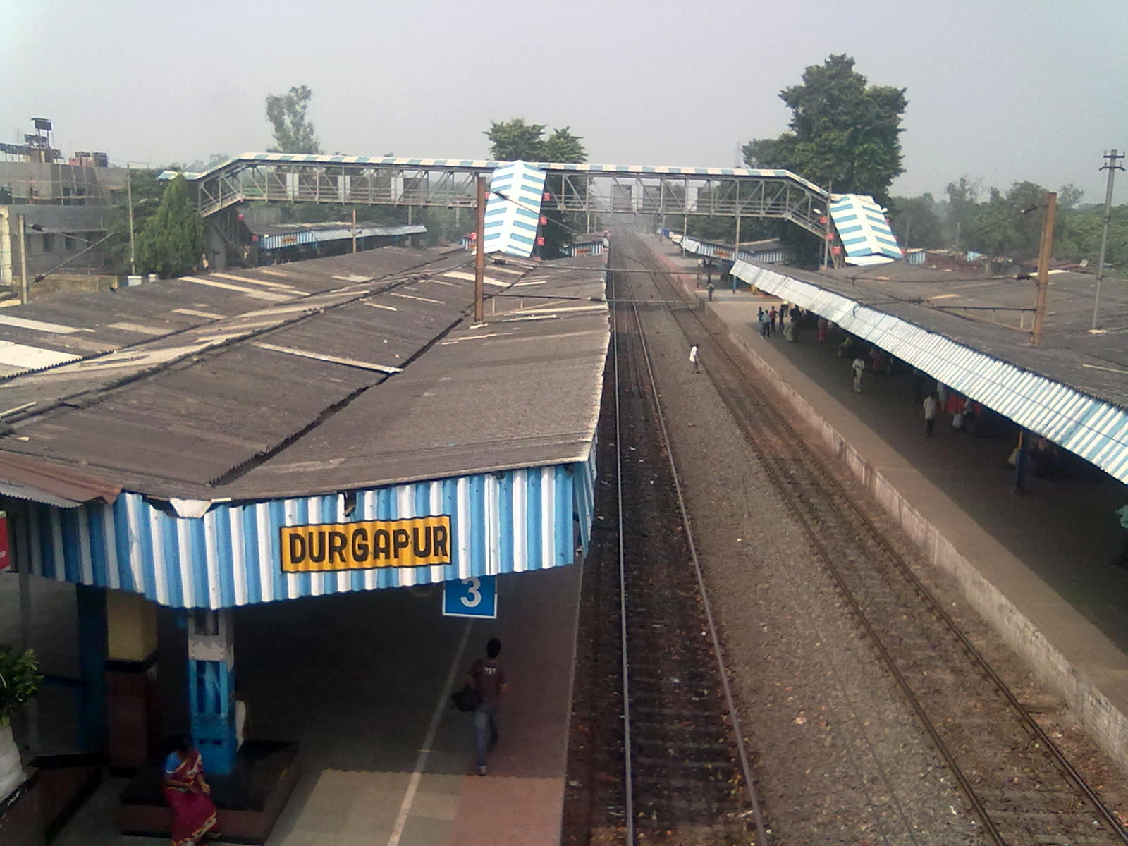 Durgapur Railway Station, Durgapur, WB, 16.10.11